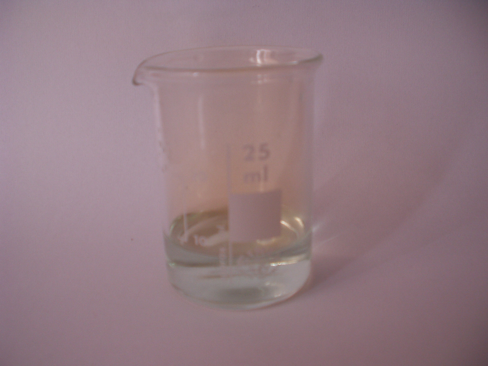 A solution of nitrous acid in a beaker, own work. Created on 2nd August 2006.